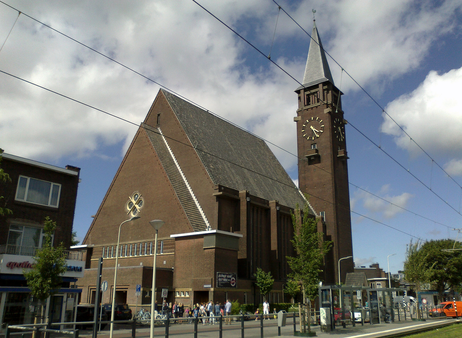 Bethlehem Kerk (church), Laan van Meerdervoort, The Hague